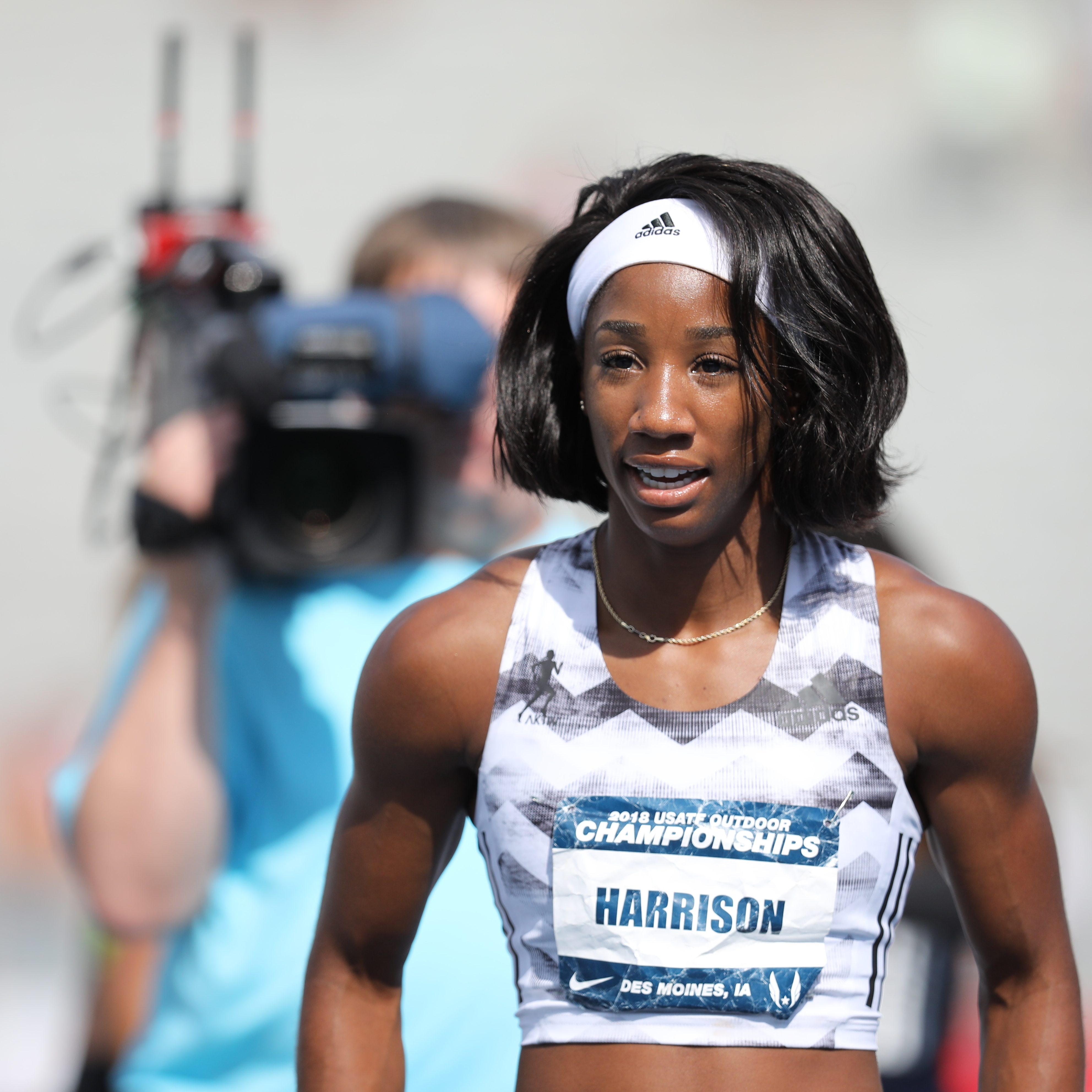 Kendra Harrison at USTAF in 2018